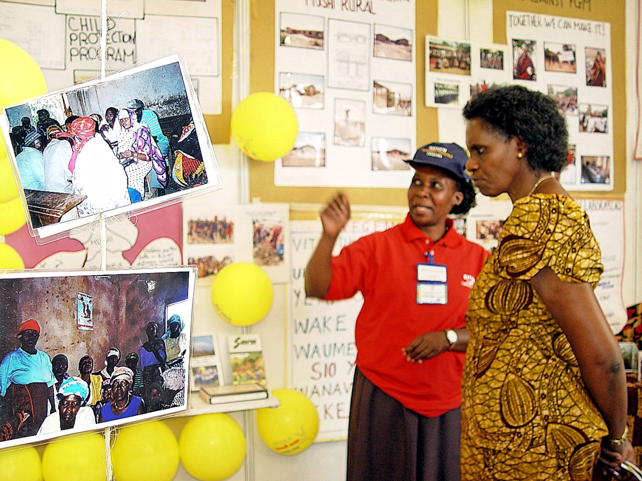 Tanzania Civil Society Leaders Present Their Concerns to Parliament Members A civil society representative discusses her organization’s work to eradicate female genital mutilation in rural areas with deputy speaker Anne Makinda, right, in Dodoma, Tanzania. With support from USAID, a variety of civil society organizations hosted an exhibition for MPs to become acquainted with their work and expertise.